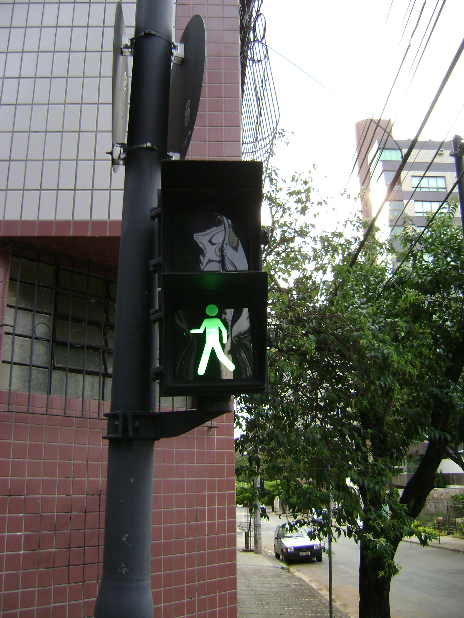 Sinal de pedestres em Belo Horizonte.